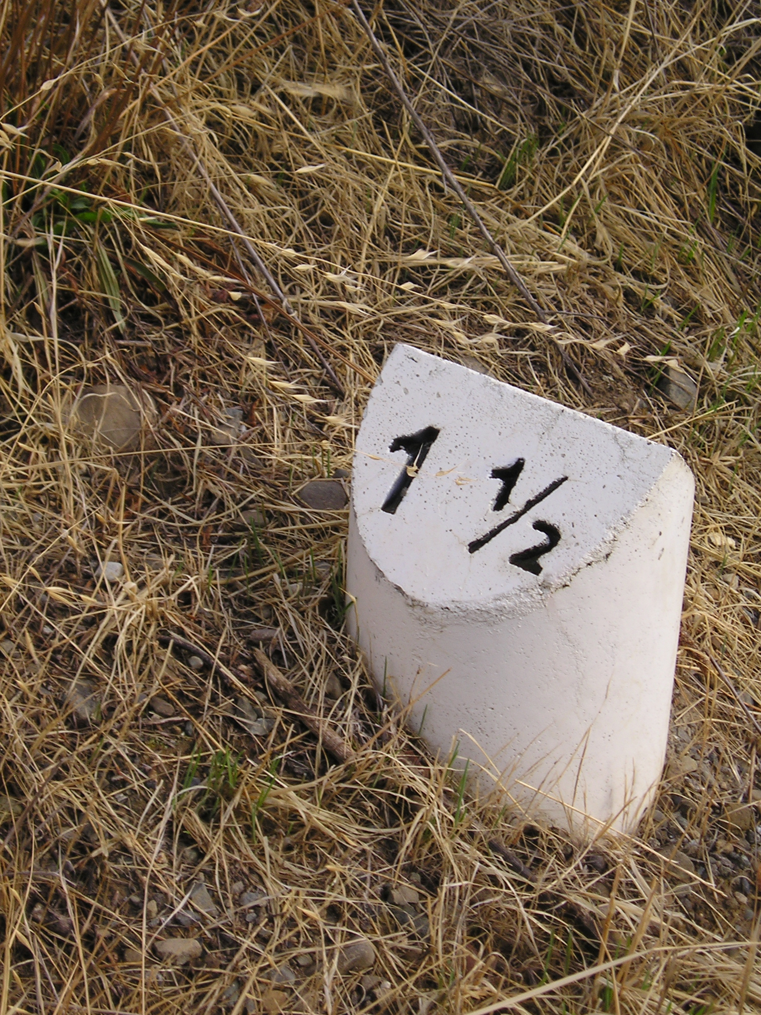 Los Gatos Creek Trail mileage marker